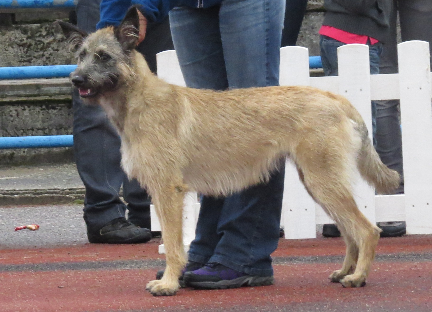 Tallinn, Estonia, duo CACIB 2013 August 17-18